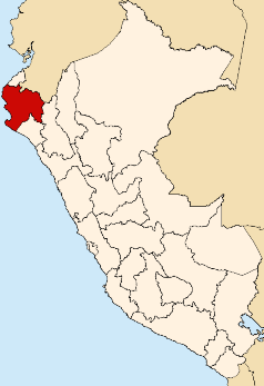 Location of the Piura region in Peru Created by User:StarbucksFreak - Apr. 2005